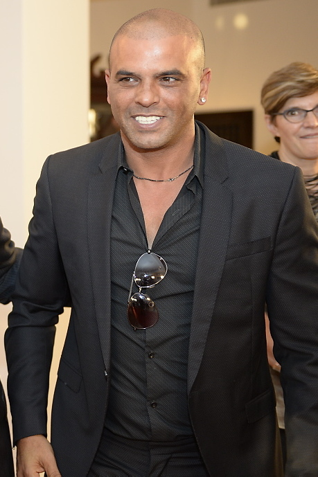 July 4th 2015